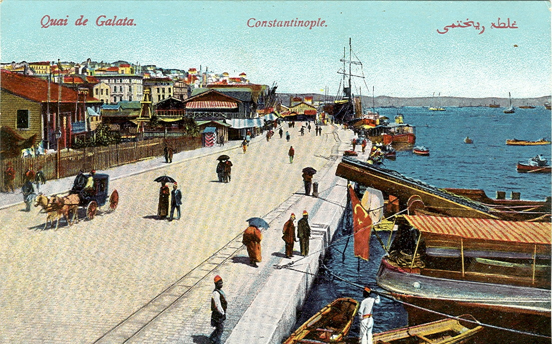 Postcard, undated ( ca.1914 ). Title: "Constantinople - Quay of Galata".